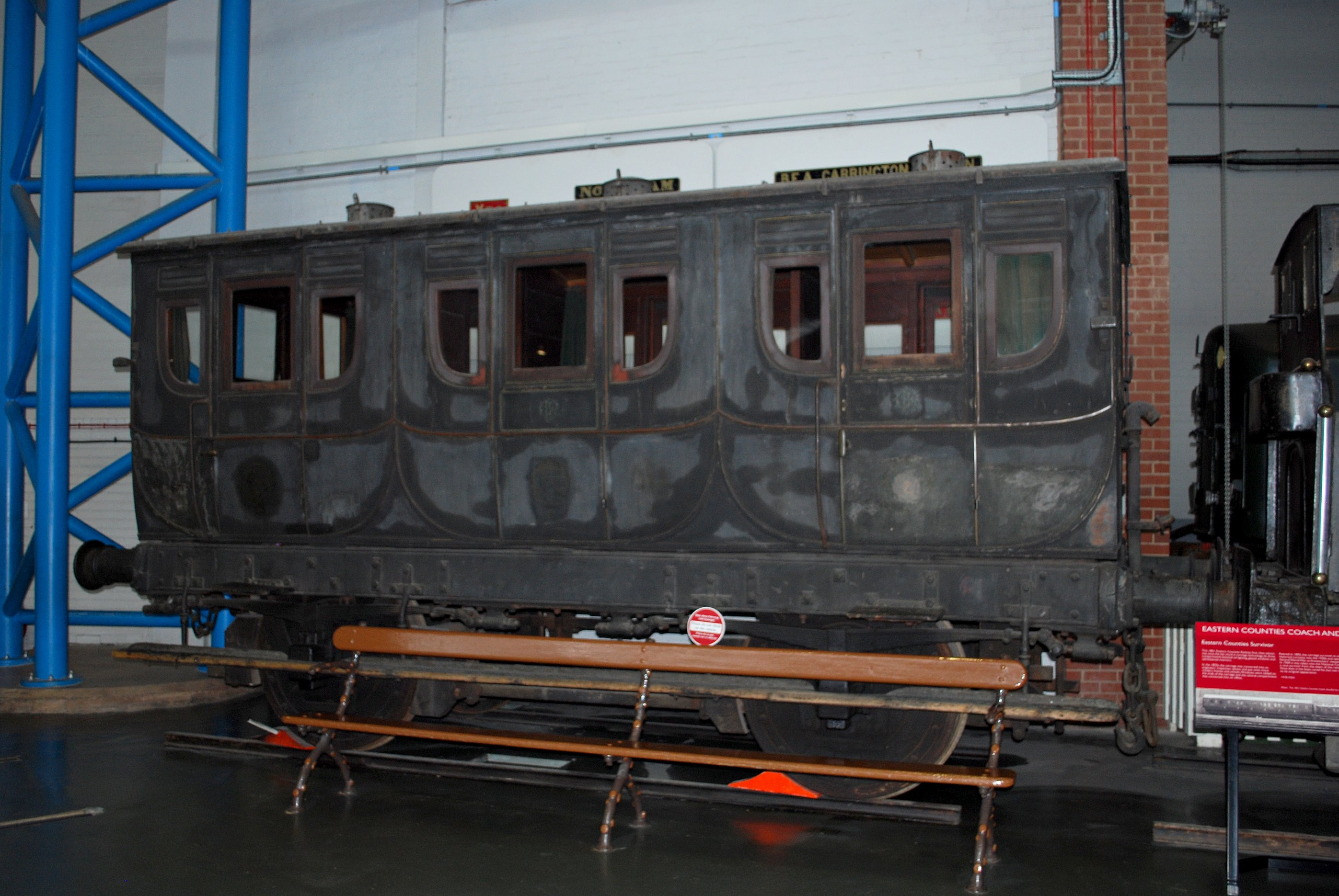 Eastern Counties Railway 1st Class carriage of 1851. Travel in 1850's East Anglia didn't get better than this! At the National Railway Museum York, 09/10.